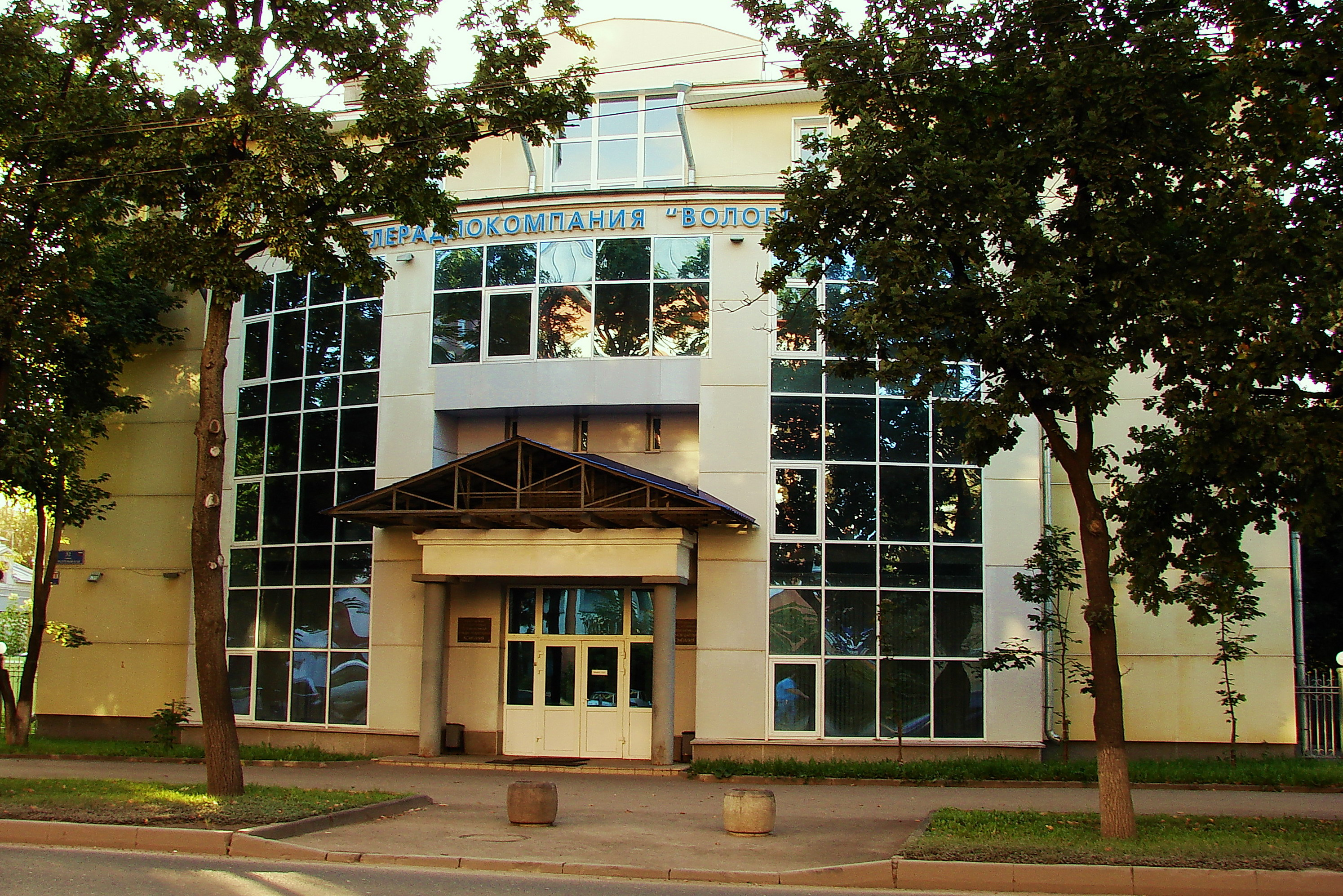 Russia, State Television and Radio Broadcasting Company Vologda